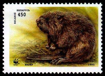 Stamp of Belarus